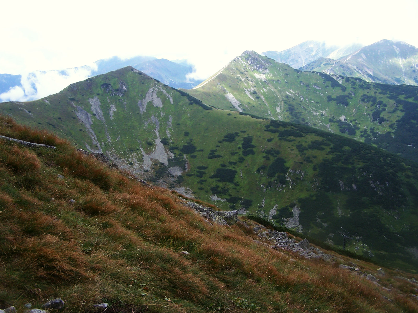 Dolina Cicha Liptowska (West Tatra Mountains)